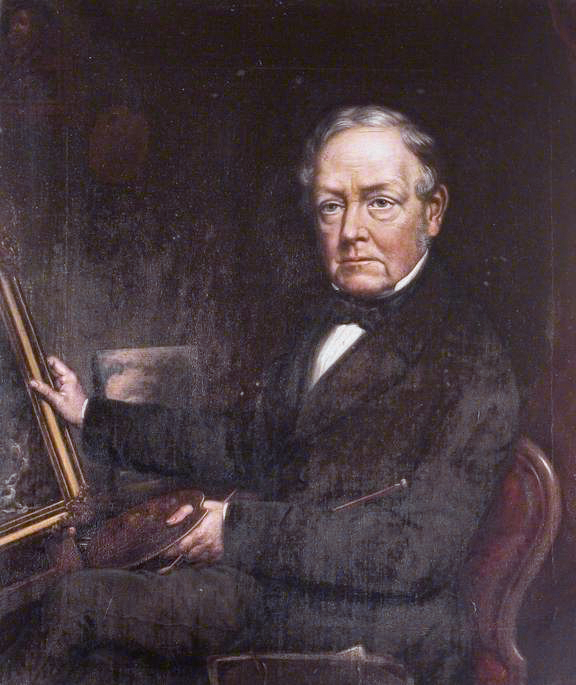 Self portrait oil on canvas 52 x 44.5 cm circa 1868